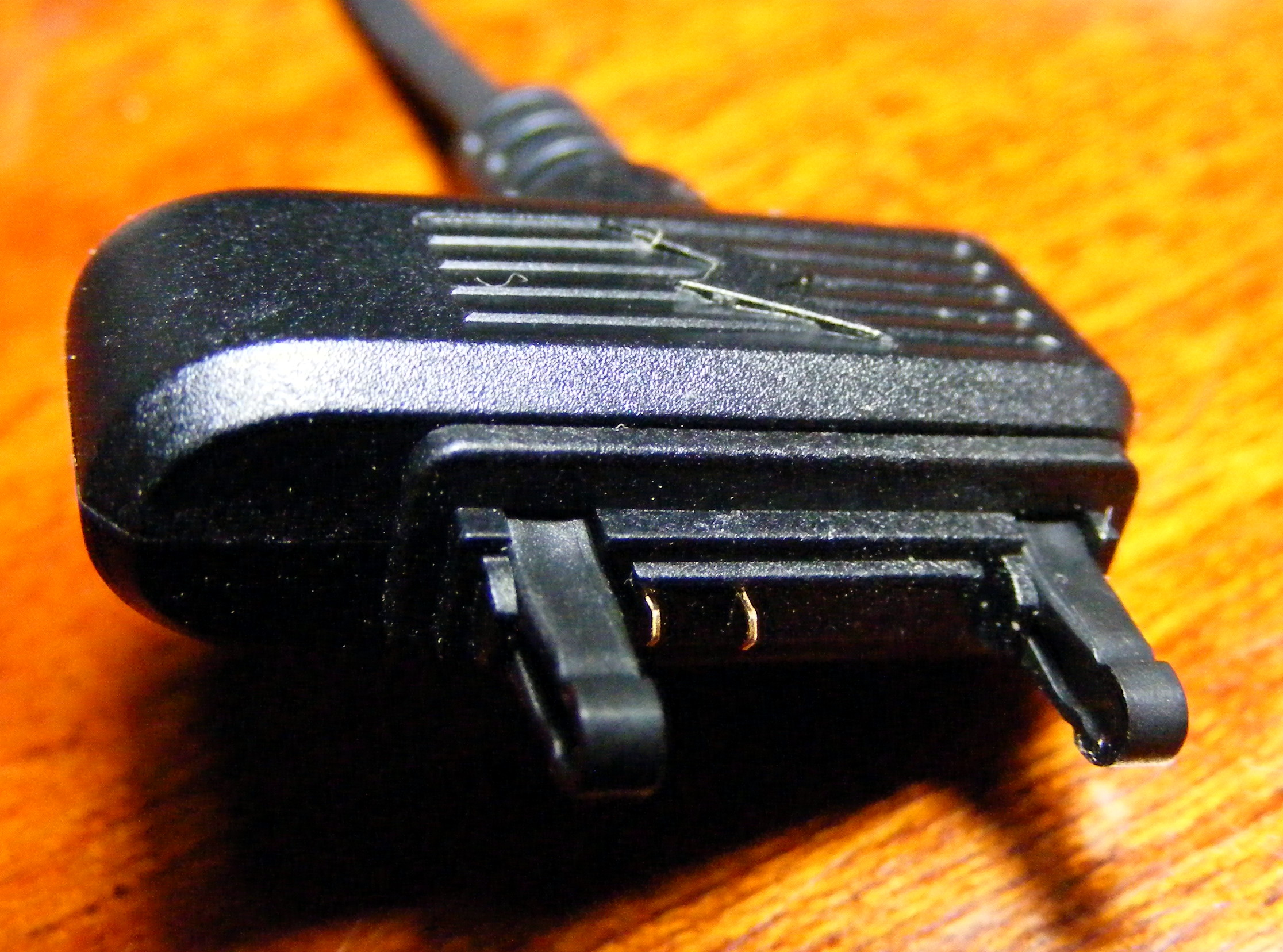 A picture of the FastPort male plug on a Sony Ericsson CST-15 mobile phone charger.